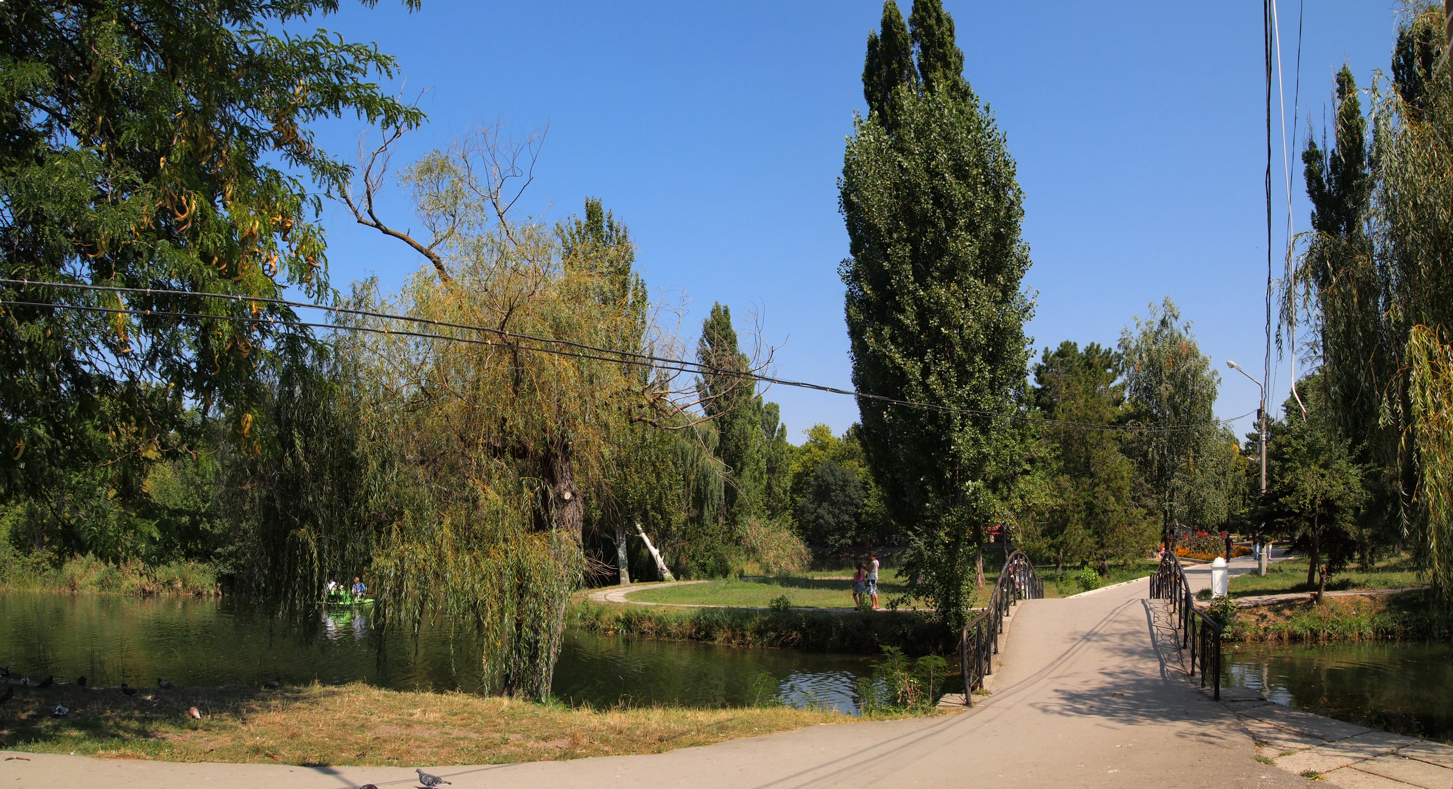 Gagarina park in Simferopol. This photograph was taken with an Olympus E-PL1.